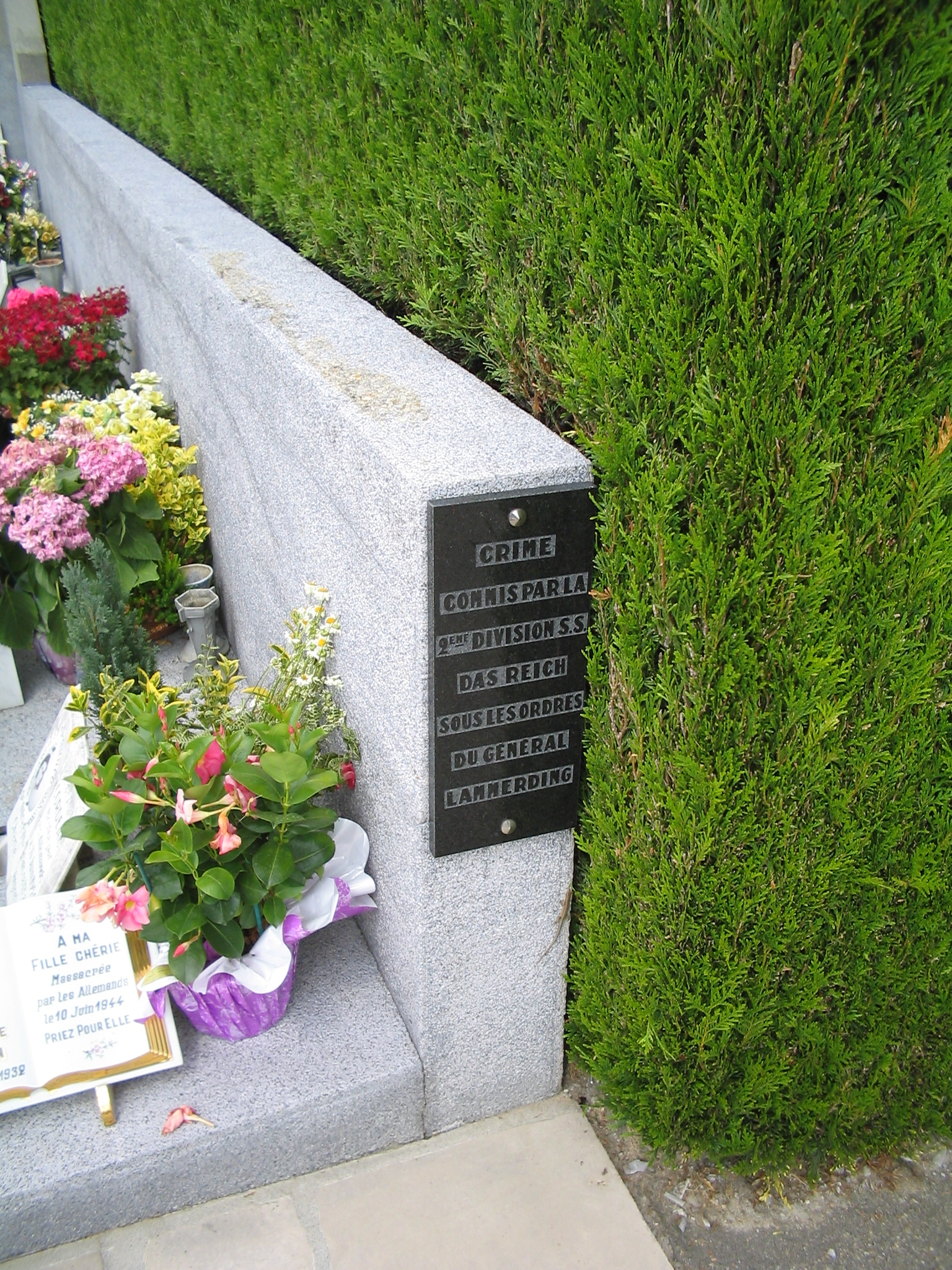 A sign in the cemetery of Oradour-sur-Glane. This small sign reads "Crimes committed by the 2nd SS Division "Das Reich" on the orders of General Lammerding". I am however not sure this information is correct; according to the wikipedia article, it was the Waffen-SS "Der Führer" regiment who was responsible. (in fact the Waffen-SS "Der Führer" regiment was a part of the 2nd SS Division "Das Reich") This is a photograph which I took during a visit to the French village Oradour-sur-Glane on June 11 2004, exactly 60 years after its destruction by the German army during World War II.